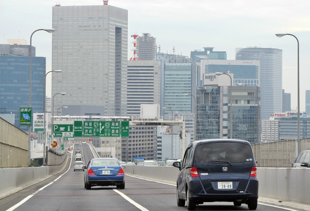 I took this photo.